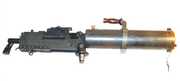 Browning Model 1917A1 Machine Gun